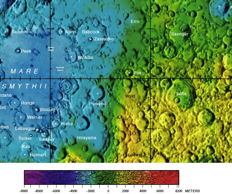 Part of the USGS far side lunar chart